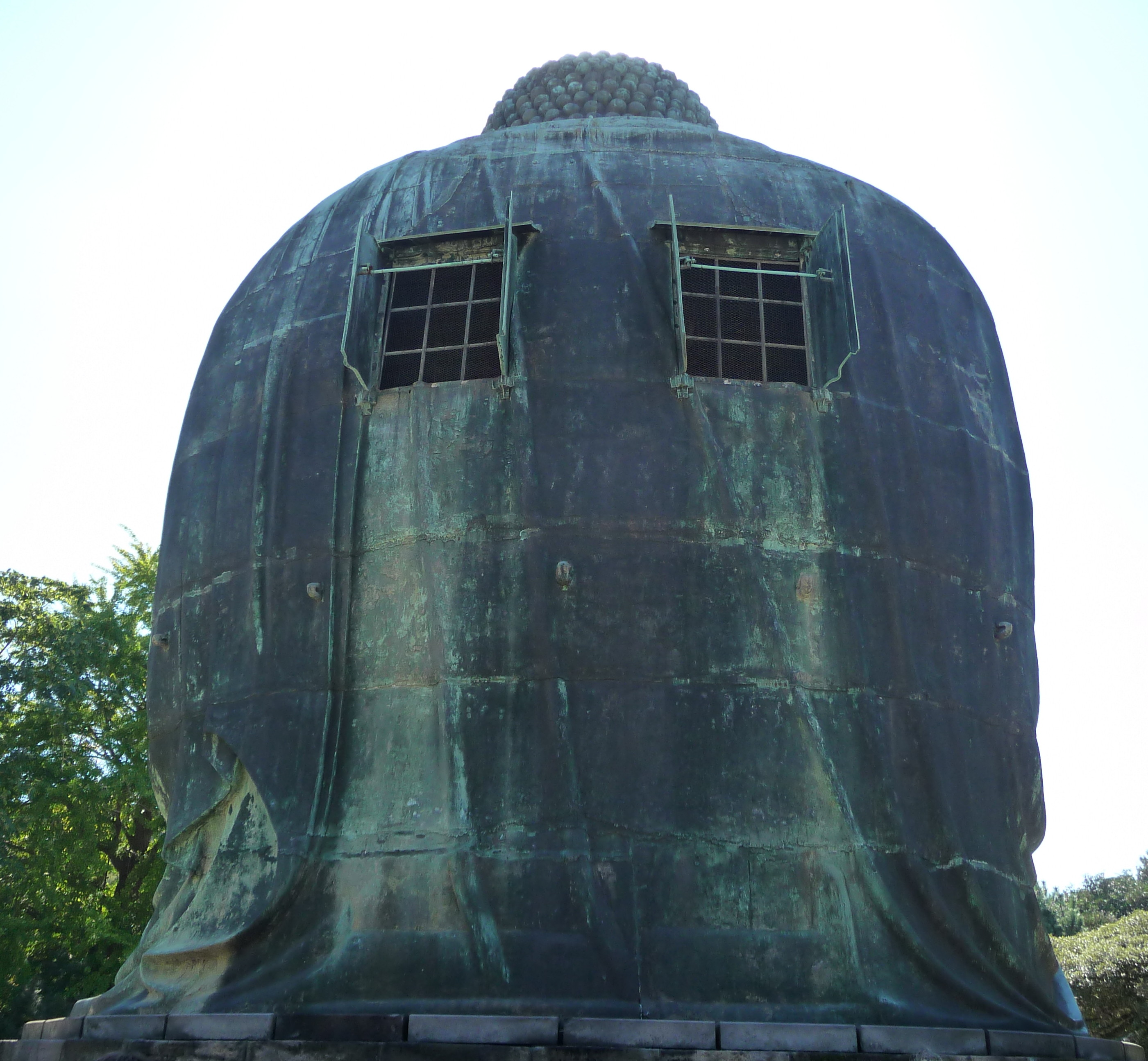 rear side of Daibutsu (Great Buddha) at Kamakura, Kanagawa Prefecture, Japan